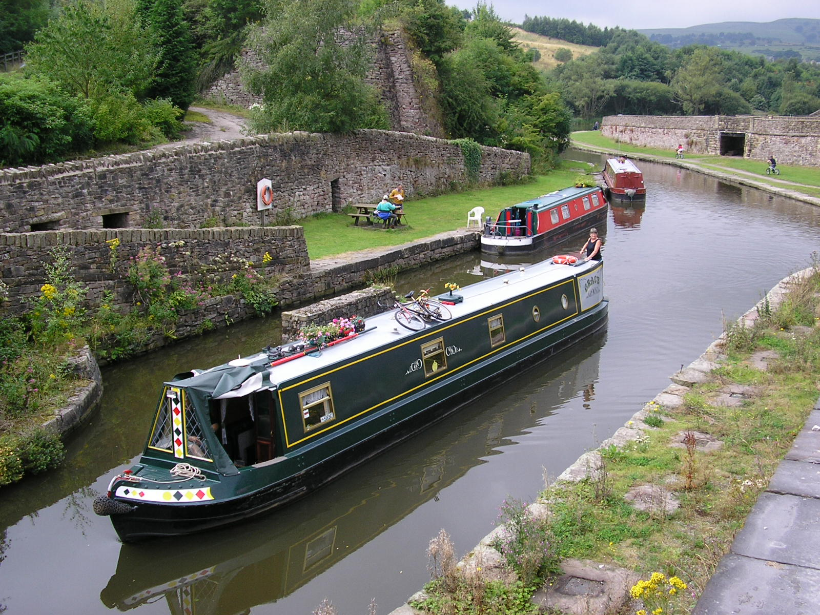 Part of Bugsworth Basin, Buxworth, Derbyshire at The remains of the Gnat Hole lime kilns, built about 1837 are top centre. The holes in the wall are the access tunnels to a further set of lime kilns, now demolished.